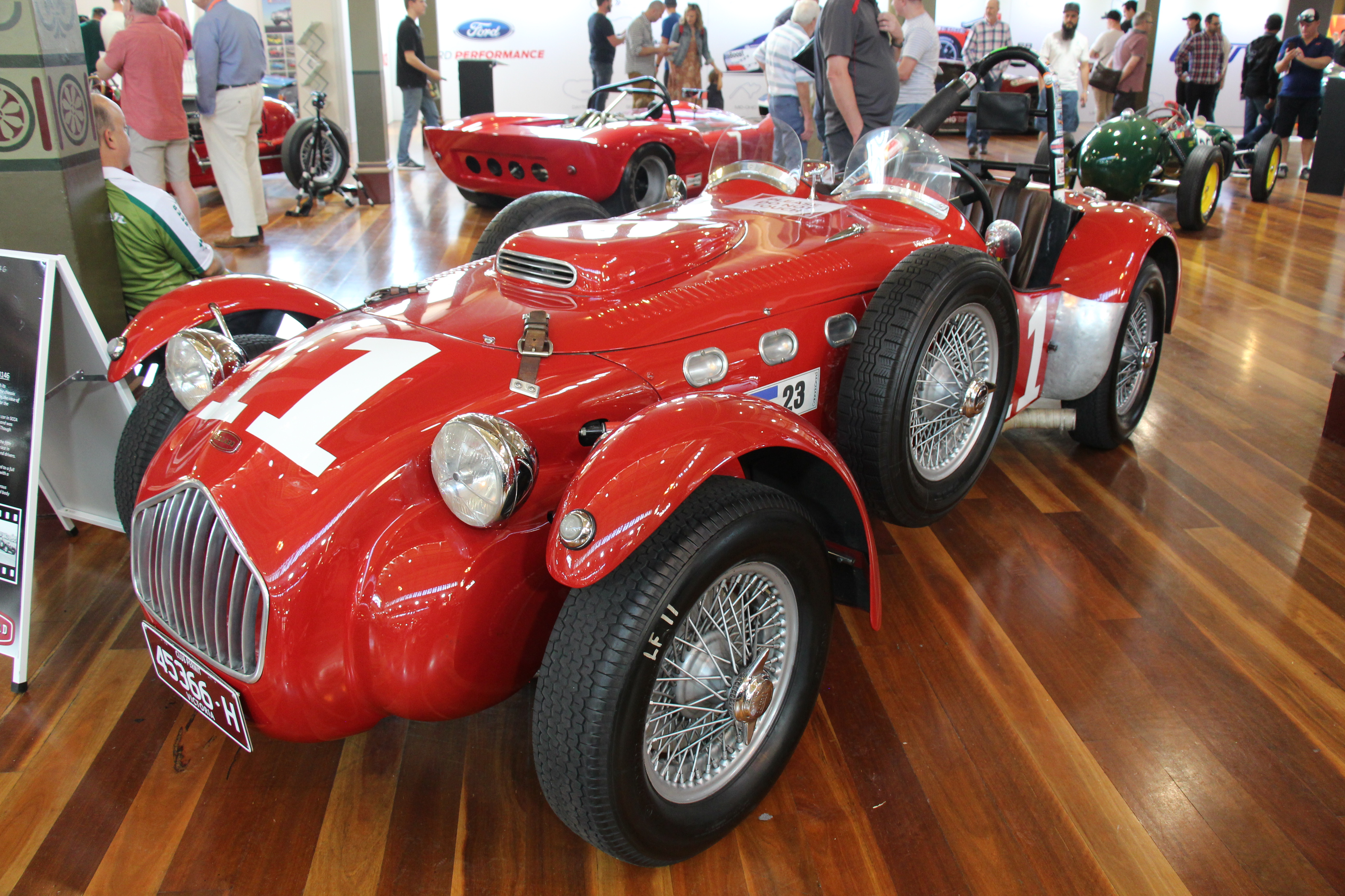 The Allard Motor Company Limited was a London based low volume car manufacturer founded in 1945 by Sydney Allard. Allards featured large American V8 engines in a light British chassis and body. The first pre war Allard cars were built specifically to compete in Trials events, powered mainly by Fords flathead V8 After the war 3 models were introduced; the J, a competition sports car; the K, a slightly larger car intended for road use, and the four seater L, later the drophead coupe M and P The 1950-52 J2 replaced the J and the 1952-54 J2X. Redesigned front suspension arrangement allowed the J2X engine to be positioned about 7 inches further forward than the J2 engine had been, improving the weight distribution also giving the driver more leg room. The longer nose sticks out beyond the front wheels (unlike the J2 where the nose stops even with the front of the front tires) Just 83 of these J2X models were built (90 J2s) This car with Cadillac 331 V8, the original owner, Texan Roy Cherryhomes employed Carroll Shelby to race the car in 1953 SCCA events, he placed first in 4 out of 5 races and second in the fifth. These wins kick started Shelby's racing career, he got a full time factory ride with Aston Martin in 1954.